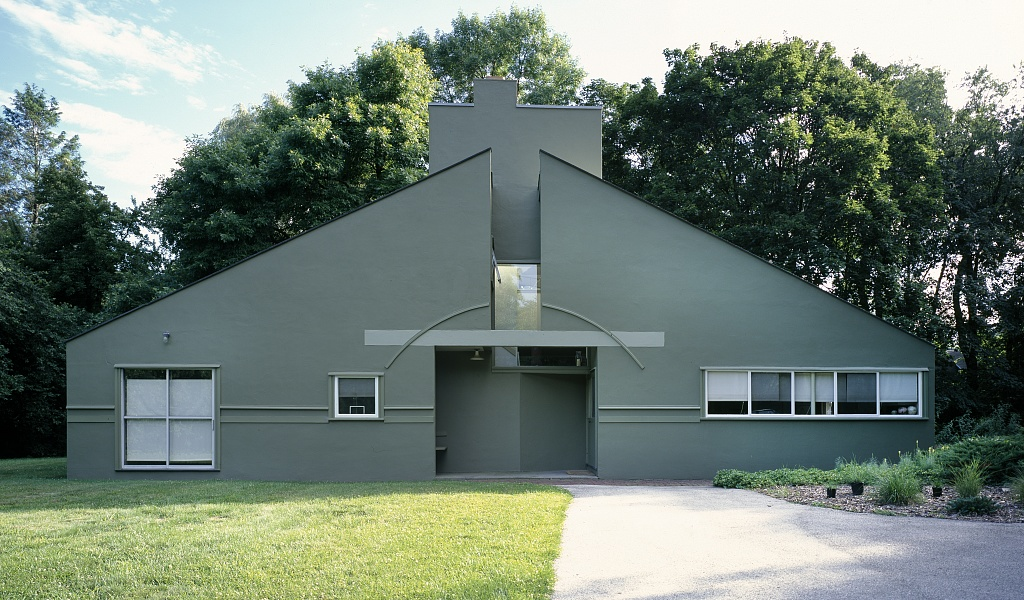 Vanna Venturi House in Chestnut Hill, Philadelphia, Pennsylvania photographed by Carol M. Highsmith. From the Library of Congress Metadata Title: Vanna Venturi House in Chestnut Hill, Philadelphia, Pennsylvania Creator(s): Highsmith, Carol M., 1946-, photographer Date Created/Published: [between 1980 and 2006] Medium: 1 transparency : color ; 4 x 5 in. or smaller. Reproduction Number: LC-DIG-highsm-13135 (digital file from original) LC-HS503-1876 (color film transparency) Rights Advisory: No known restrictions on publication. Call Number: LC-HS503- 1876 (ONLINE) [P&P] Repository: Library of Congress Prints and Photographs Division Washington, D.C. 20540 USA Notes: Built in 1989 (SIC) by architect Robert Venturi. Title, date, and keywords provided by the photographer. Credit line: Photographs in the Carol M. Highsmith Archive, Library of Congress, Prints and Photographs Division. Gift and purchase; Carol M. Highsmith; 2011; (DLC/PP-2011:124). Forms part of the Carol M. Highsmith Archive. Subjects: United States--Pennsylvania--Philadelphia. America. Robert Venturi. Format: Transparencies--Color--1980-2010. Collections: Highsmith (Carol M.) Archive Part of: Highsmith, Carol M., 1946- Carol M. Highsmith Archive. Bookmark This Record